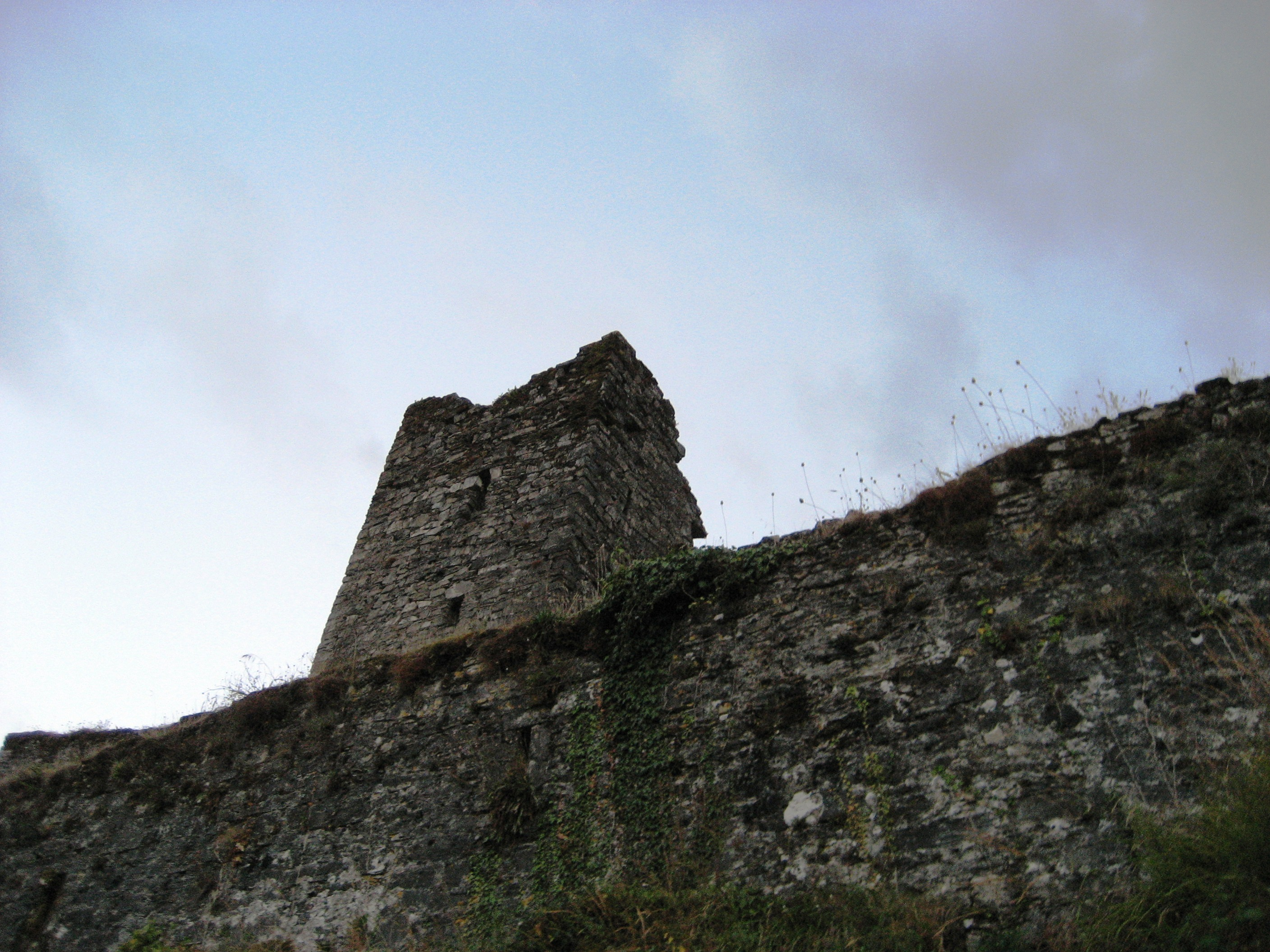 Castle Sarracín. Vega de Valcarce (El Bierzo, León, Spain)